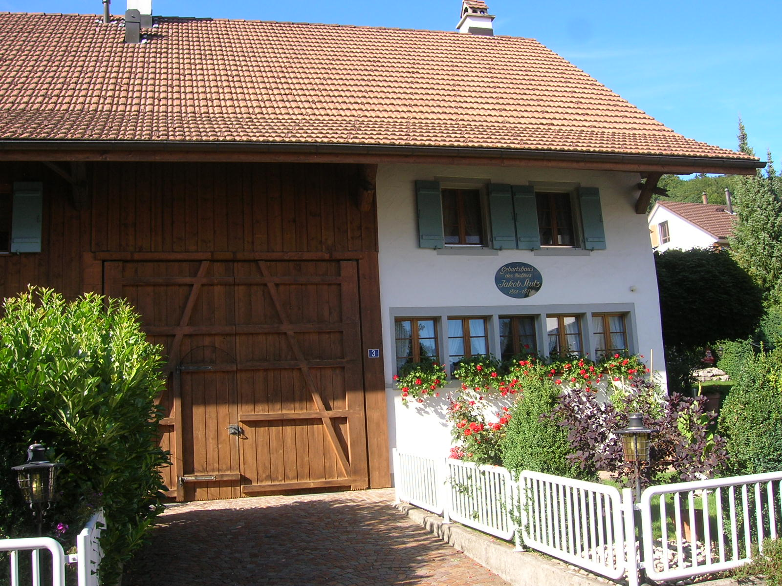 birthplace of Jakob Stutz (1801-1877) at Hittnau ZH